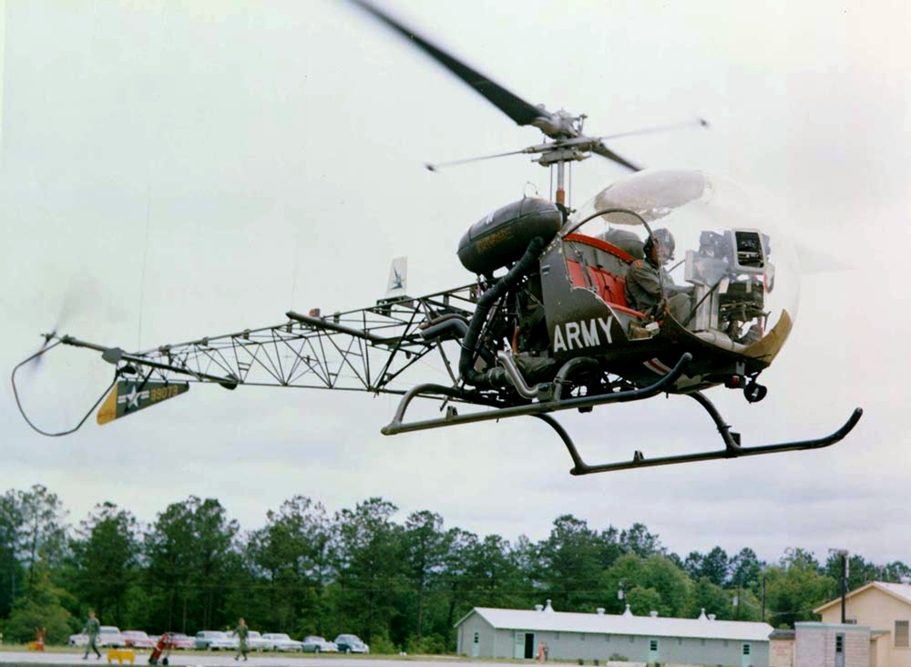 A U.S. Army Bell OH-13S Sioux (s/n 63-9073) in flight.